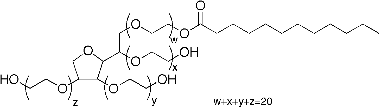 chemical structure of polysorbate 20 (Tween 20)